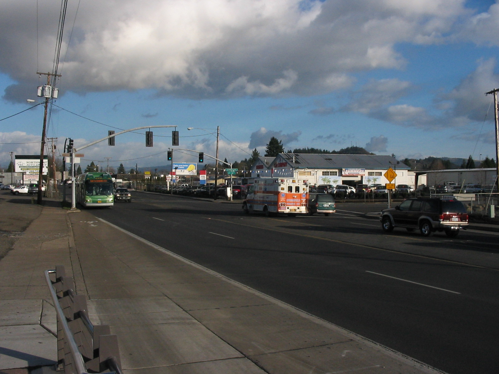 An EmX vehicle approaches a station in Glenwood, a community between Eugene and Springfield, Oregon